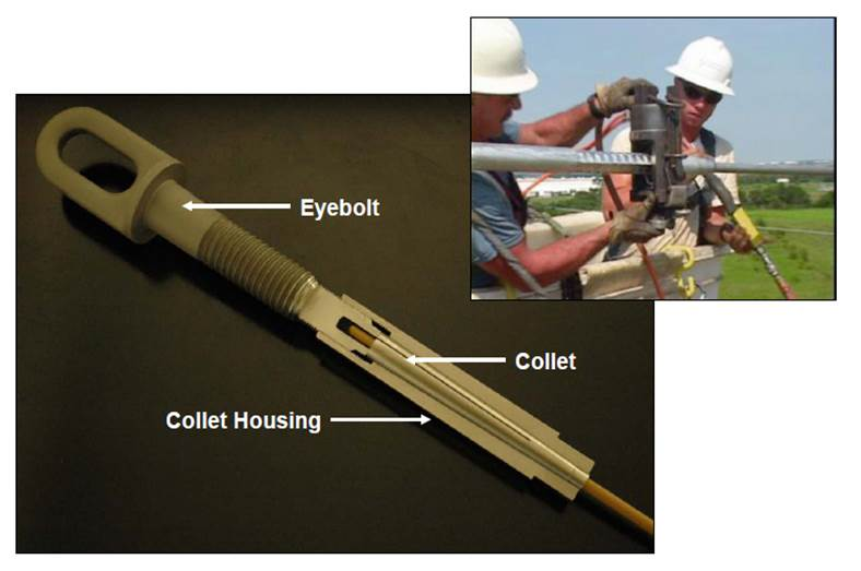 This photo shows the internal components of an ACCC conductor dead-end assembly. The labelled diagram on the left shows the mechanical attachment to the load-bearing composite core. On the right, the current-carrying aluminium sheath is being crimped in place over top.